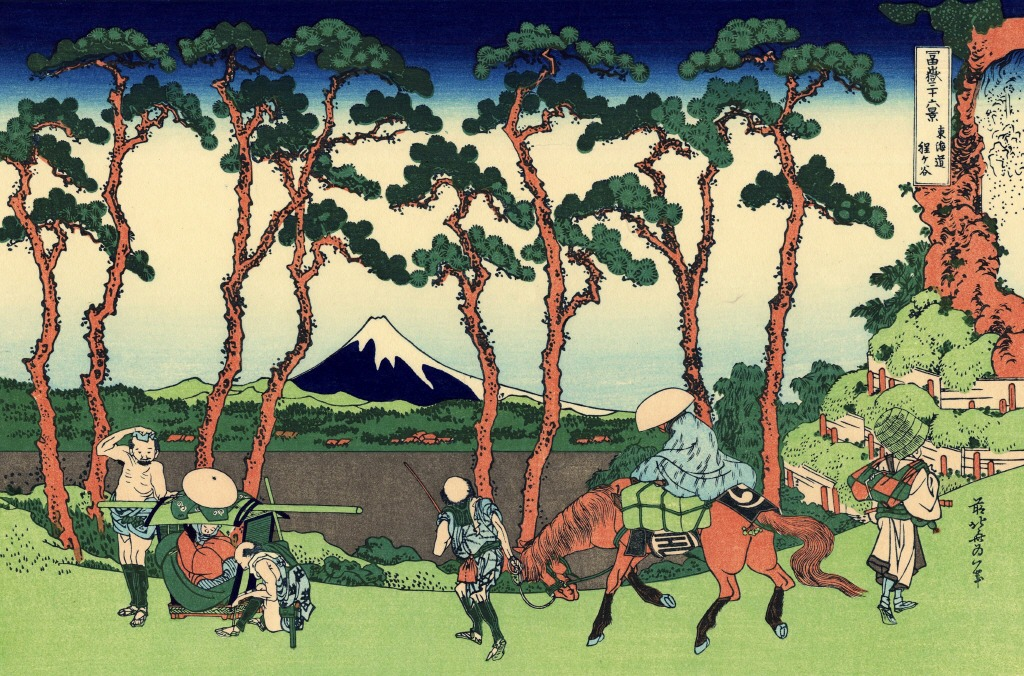 Part of the series Thirty-six Views of Mount Fuji, no. 23.